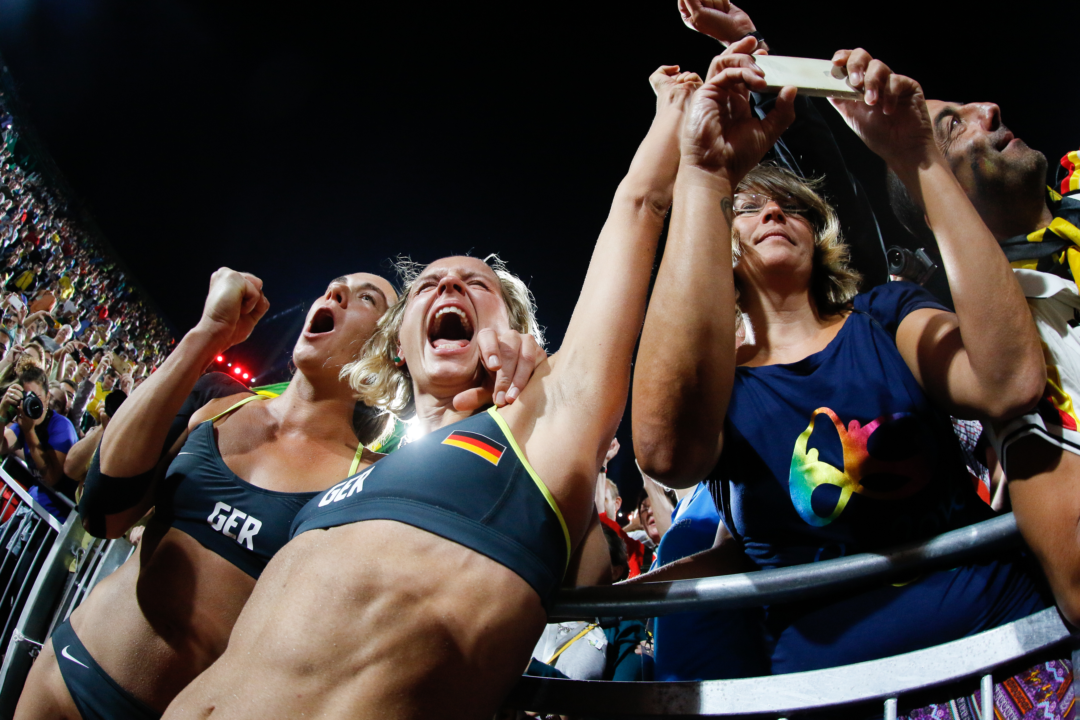 Rio de Janeiro - As alemãs Ludwig e Walkenhorst, levam ouro na final do vôlei de praia, contra as brasileiras, Ágatha e Bárbara, nos Jogos Olímpicos Rio 2016 ( Fernando Frazão/Agência Brasil)